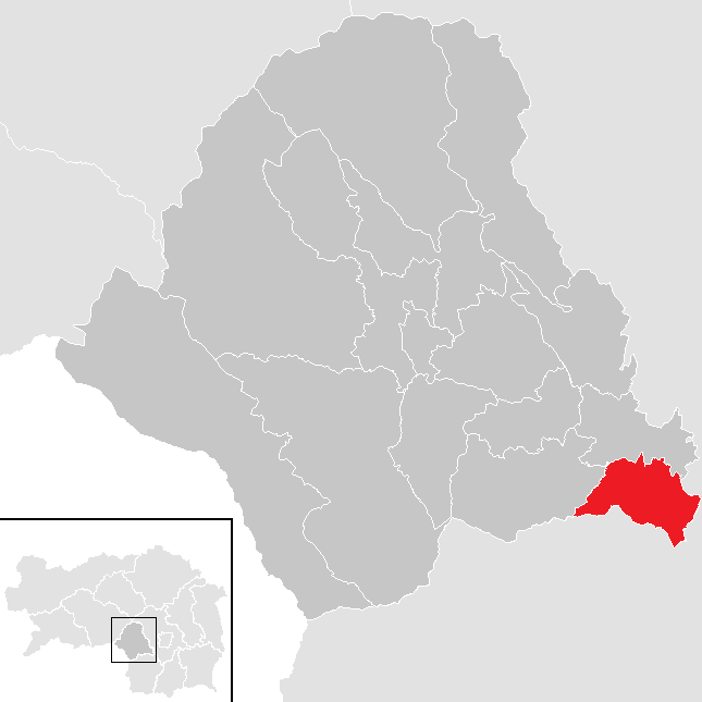 district Voitsberg